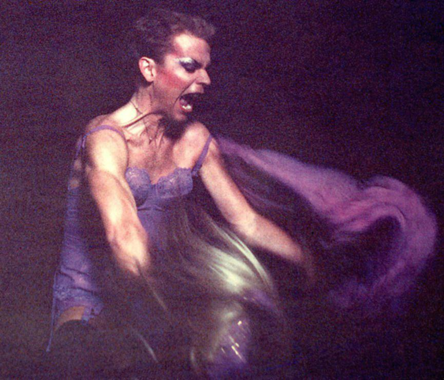 Roger Jönsson on stage and in character in a typical Maj Gadd stance, as released by image creator Lars Jacob ProdPlace: Stockholm, Sweden